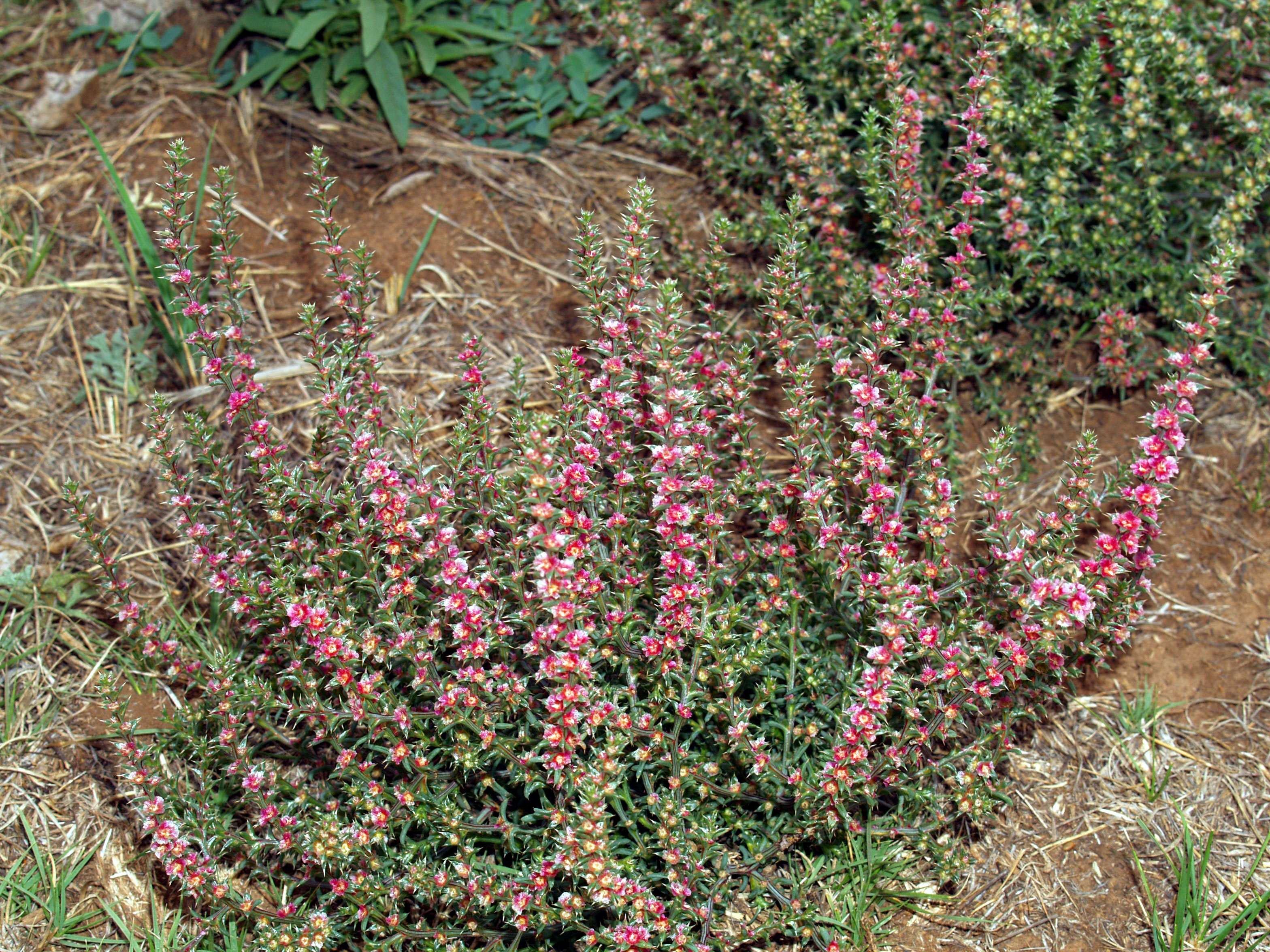 Kali tragus (Syn. Salsola tragus, S. iberica) at Wind Cave National Park, South Dakota, USA